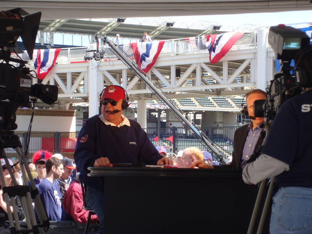 STO Pregame with Bruce Drennan